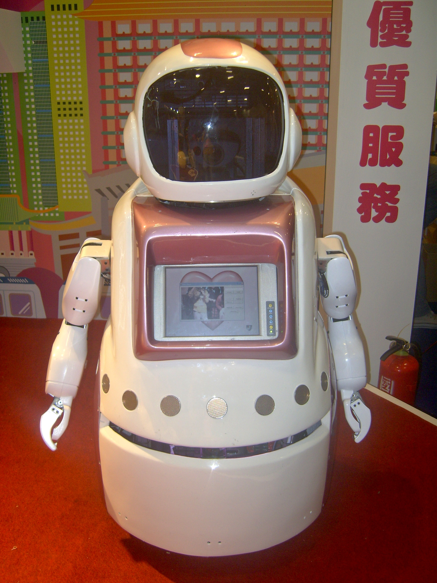 2008 Taipei IT Month - Taipei City Government: Intelligent Housekeeping Robot from National Taiwan University.